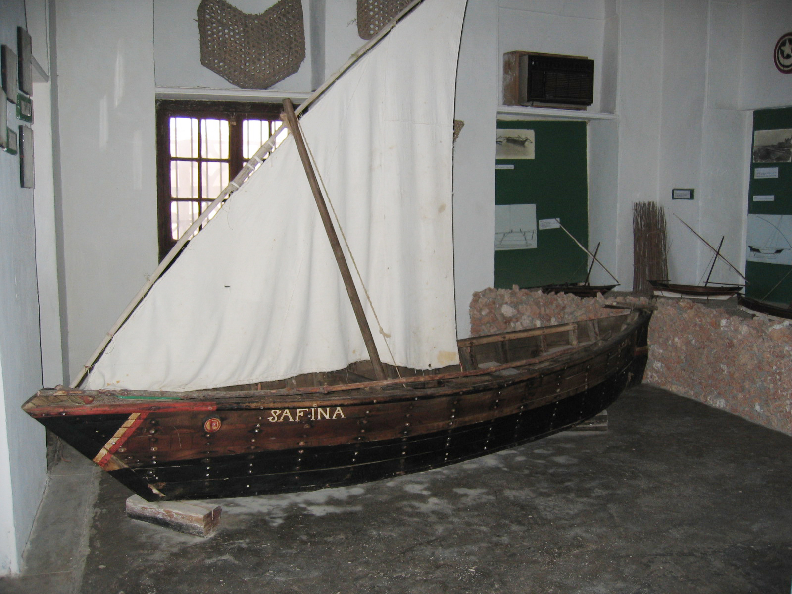 Dhow, modell at Lamu Museum, Kenya